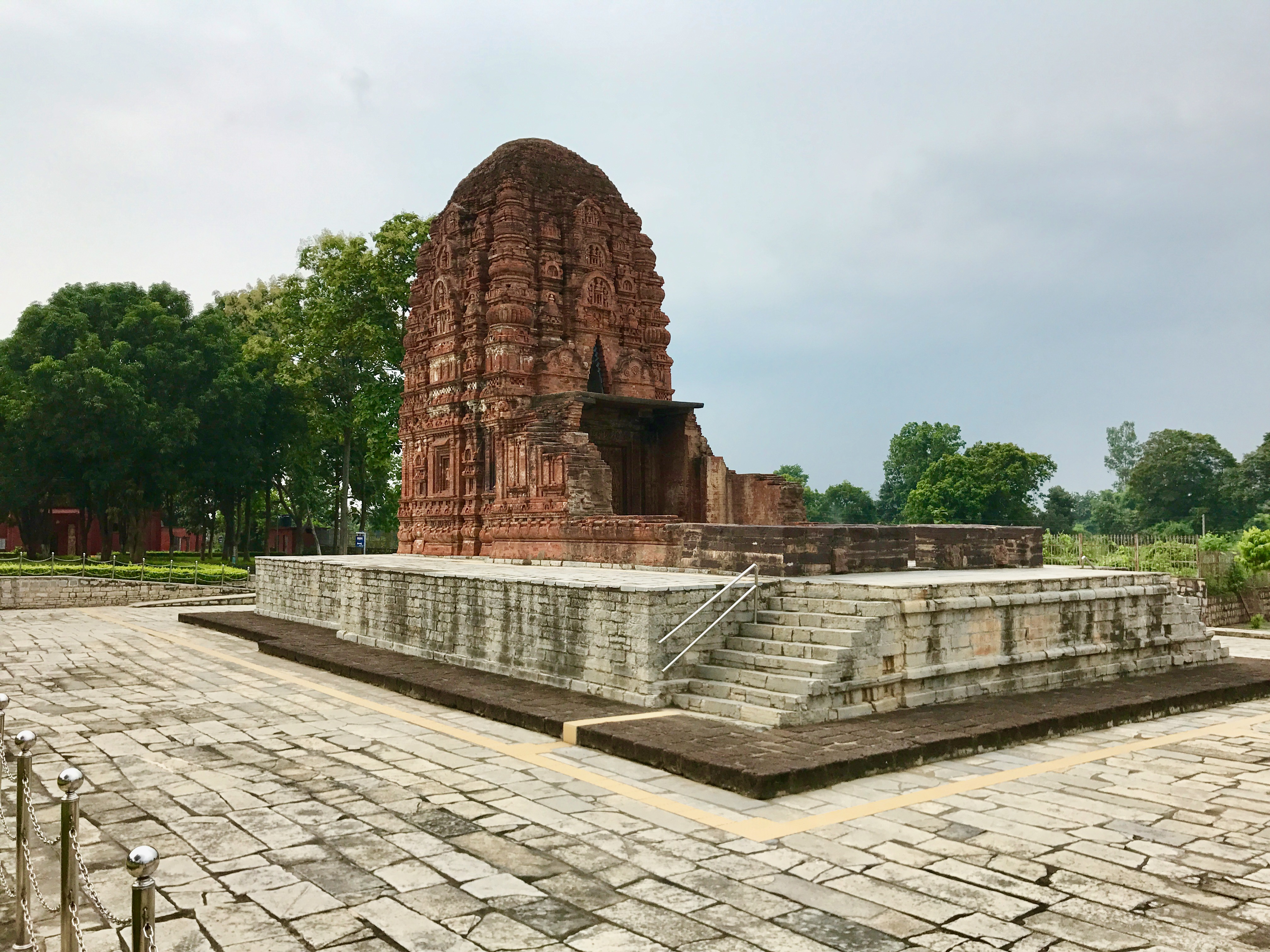 The Laxman or Lakshmana temple is a collection of ruins and a standing Hindu temple predominantly made of bricks. It is dated to the first half of the 7th century CE, built in Kosala dynasty period by a Queen named Vasata. The temple is dedicated to Vishnu, but reverentially features Shaiva and Shakti ideas and iconography. The temple originally consisted of main shrine and smaller shrines, with extensive mandapa all raised above the group by steps from all side rising towards the sky. All except one structure is gone, with only foundation and base structure now visible. The steps to the main structure has been restored to allow visitors to see the standing brick temple. The standing structure shows eroded reliefs that are still intricate. A Seshasayi Vishnu (lalatabimba legend) along with various avatars of Vishnu are visible at the entrance of the garbha griya. Other Hindu celebration motifs of mithuna (love, eros), ratna (jewelry), rasa lila (play of life, particularly using Krishna), and cultural/social themes are communicated by the artists who created it.